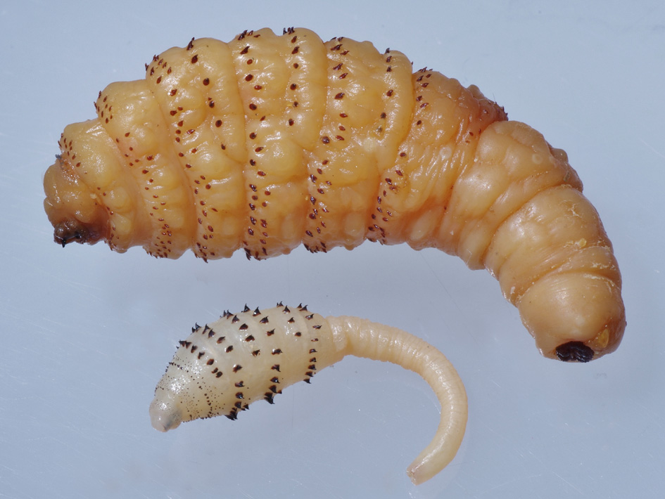 Dermatobia Torsalo-fly larvae, a cause of non-migratory furuncular myiasis confined to the original site of infestation.